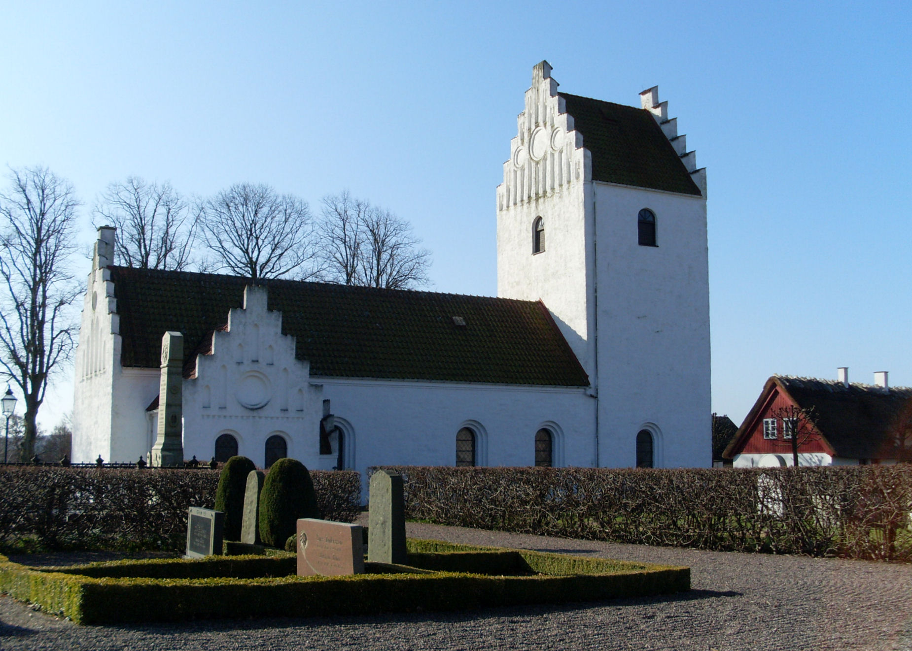 The church of Gödelöv in southern Sweden